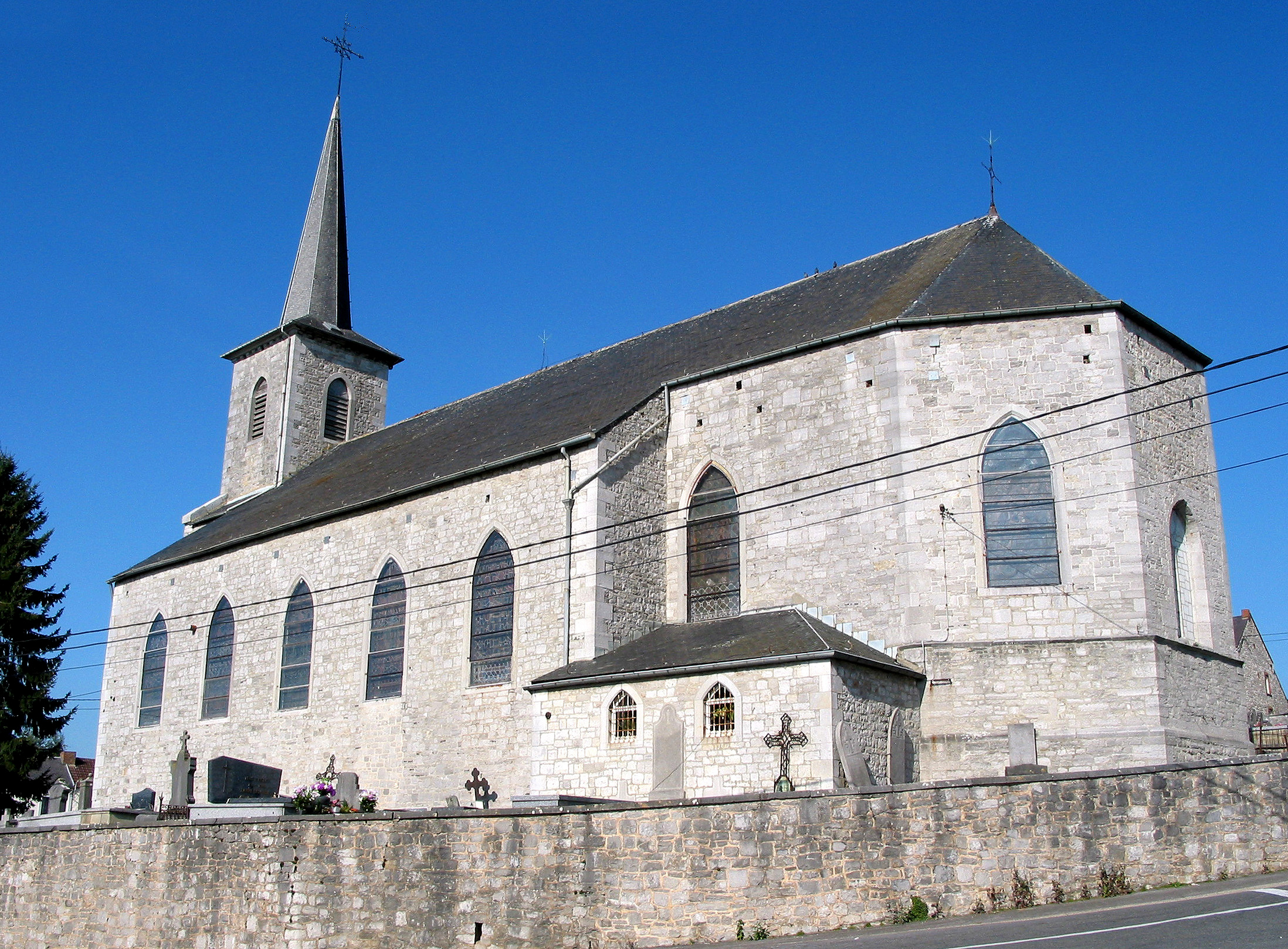 Onhaye (Belgium), the Saint Martin’s church (1808).